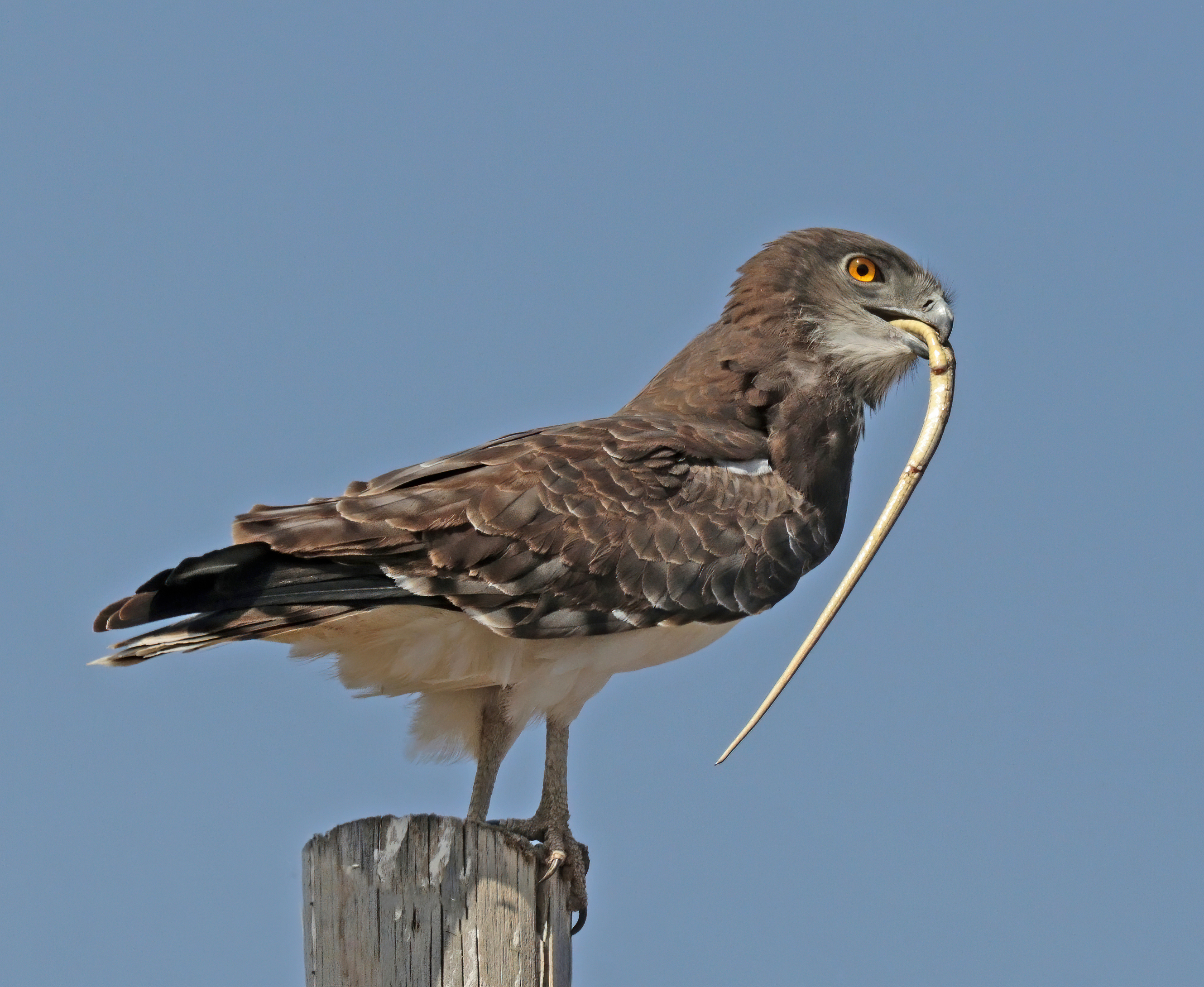 Black-chested (formerly short-toed) snake eagle (Circaetus pectoralis) with a snake, Awash National Park, Ethiopia